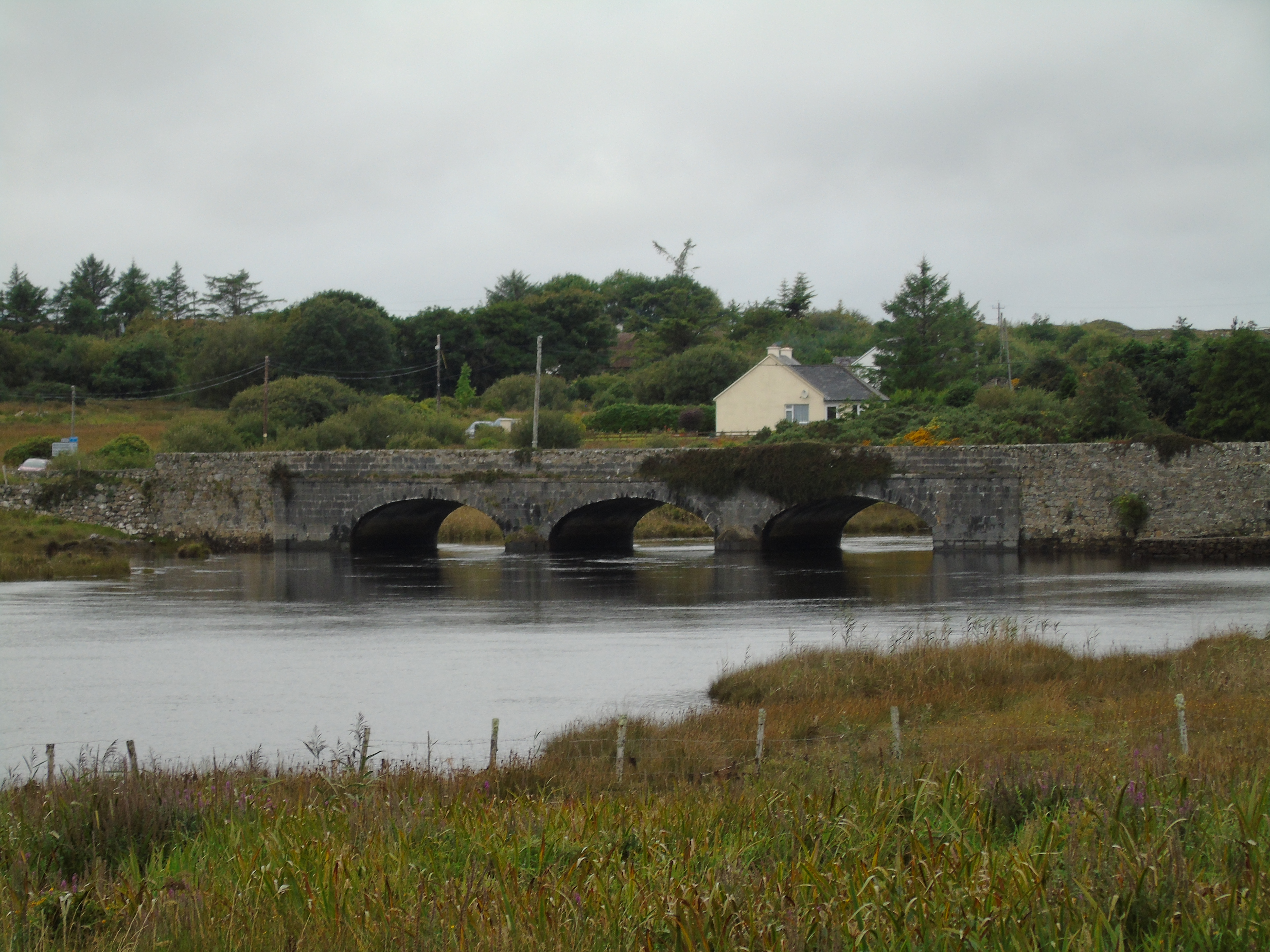 County Galway, Toombeola Bridge. Wikidata has entry Q55046278 with data related to this item.